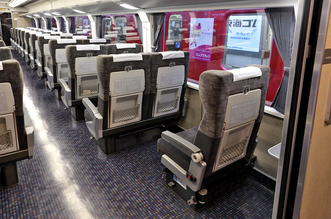 Interior of Meitetsu 1700 series EMU ( Sa 1654 )